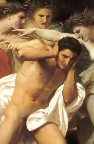 The Remorse of Orestes or Orestes Pursued by the Furies